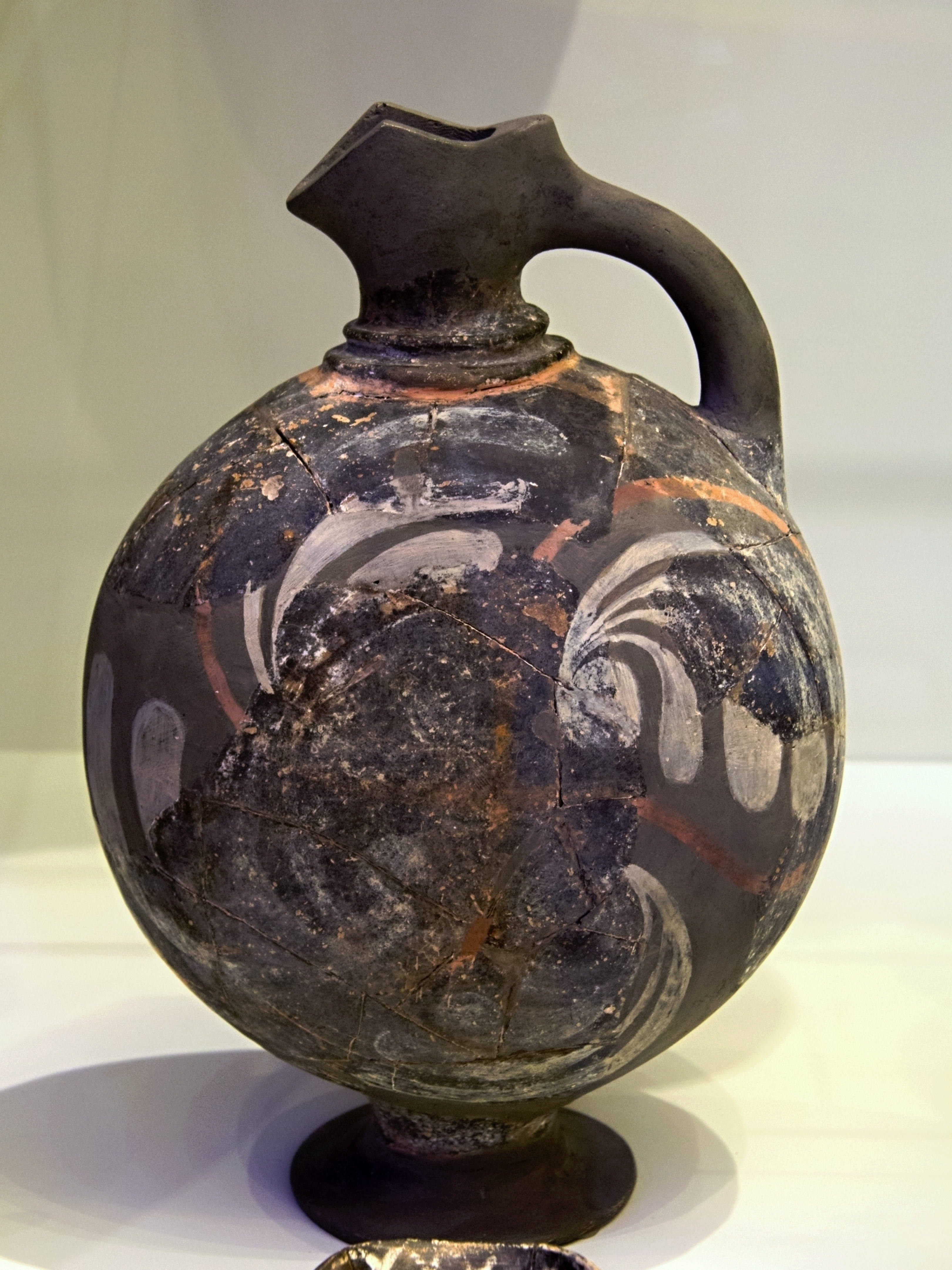 Kamares Ware vessels from Knossos, 1800-1700 BC. Archaeological Museum of Heraklion.